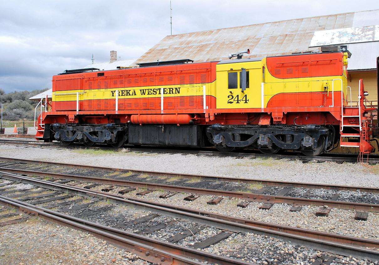 Diesel-electric locomotive ALCO MRS-1; Yreka Western Railroad # 244 at Yreka Railroad Station